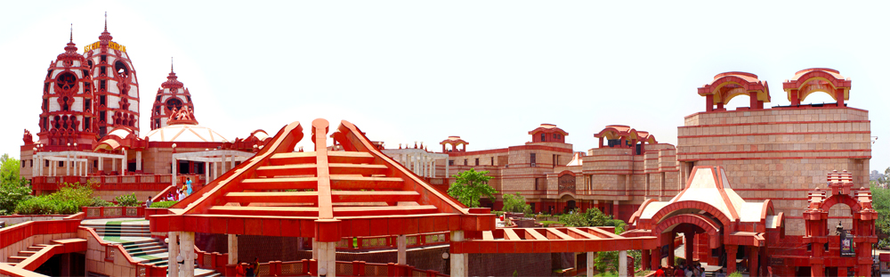 A panoramic shot of the ISKCON temple with its intricate architecture and the whole temple complex dedicated to Sri Sri Radha Parthasarathi.